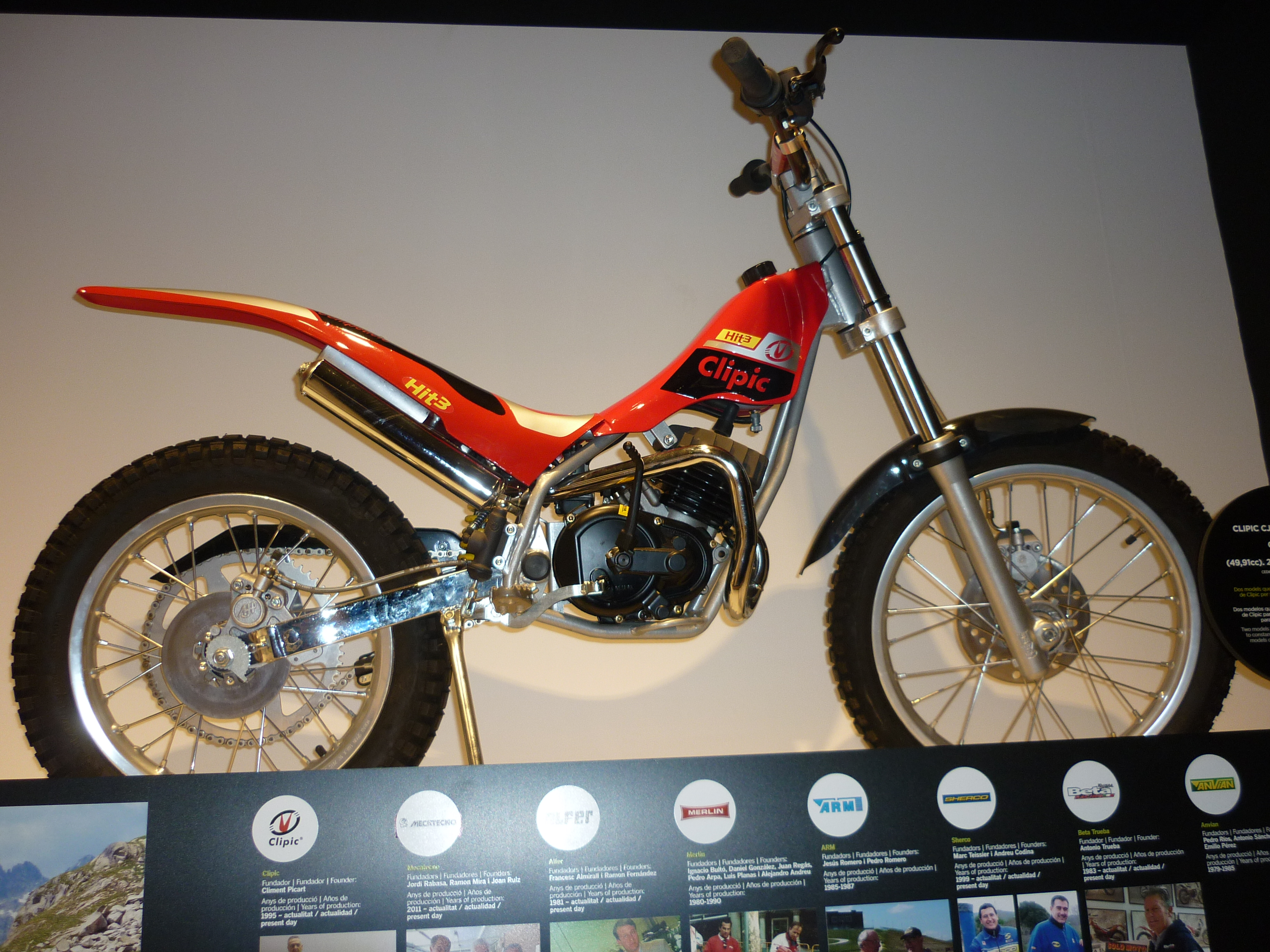 Clipic CJ50 Hit3 Competició (49,91cc), 2015